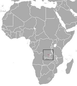 Upemba Shrew (Crocidura zimmeri) range